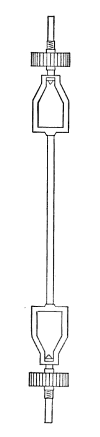 Drawing of Repsold pendulum, a freeswinging reversible pendulum developed in 1869 by German instrument maker Adolf Repsold for use as a precision gravimeter in geophysical serveys. 56.0 cm long between the interchangeable knife blade suspension points, it had a period of 3/4 second. Although symmetrical in form, one of the weights on the end was lighter than the other. It was swung from one built in knife edge pivot and the period timed, then turned upside down and swung from the other pivot and timed. From the two periods and the distance between the knife blades, the gravity could be calculated. Alterations to image: none.